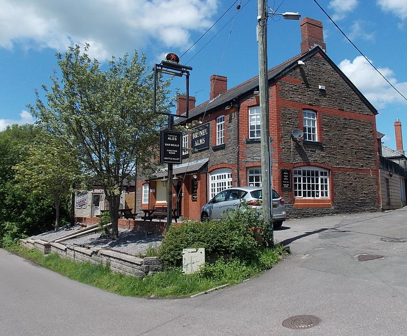 Brunel Arms, Pontyclun. Pub in Station Approach, near the northern entrance to Pontyclun railway station.